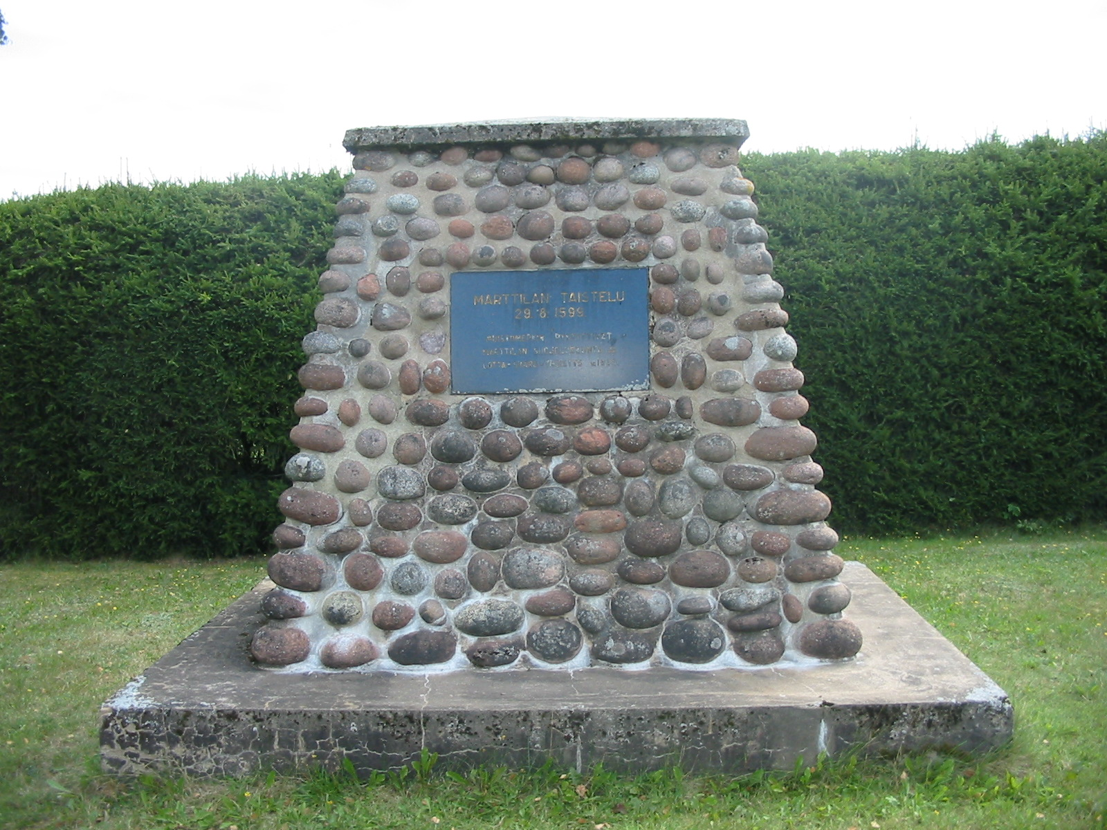 The memorial of the battle of Marttila ion Marttila, Finland Proper